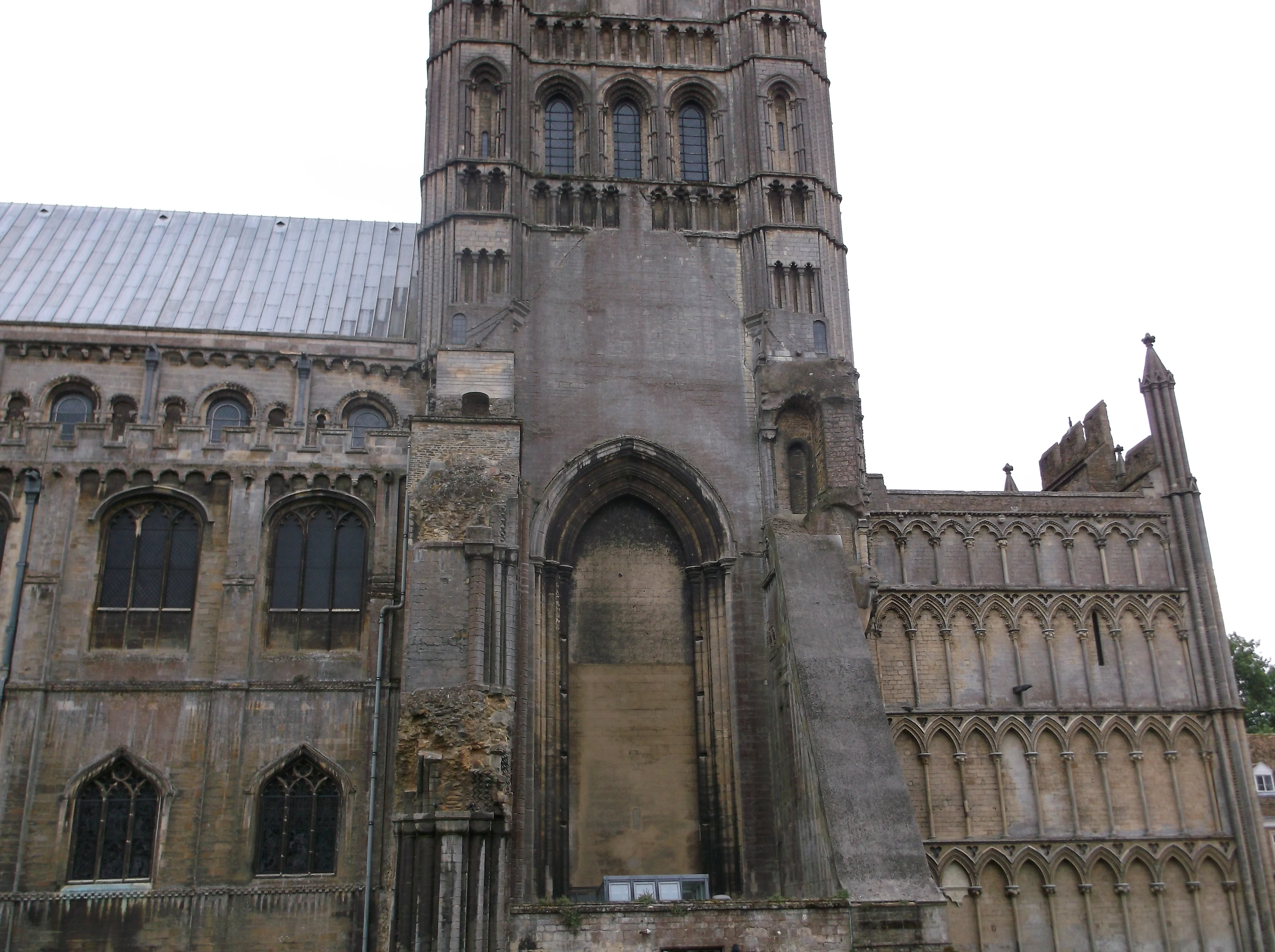 Ely Cathedral (Cathedral of the Holy Trinity)